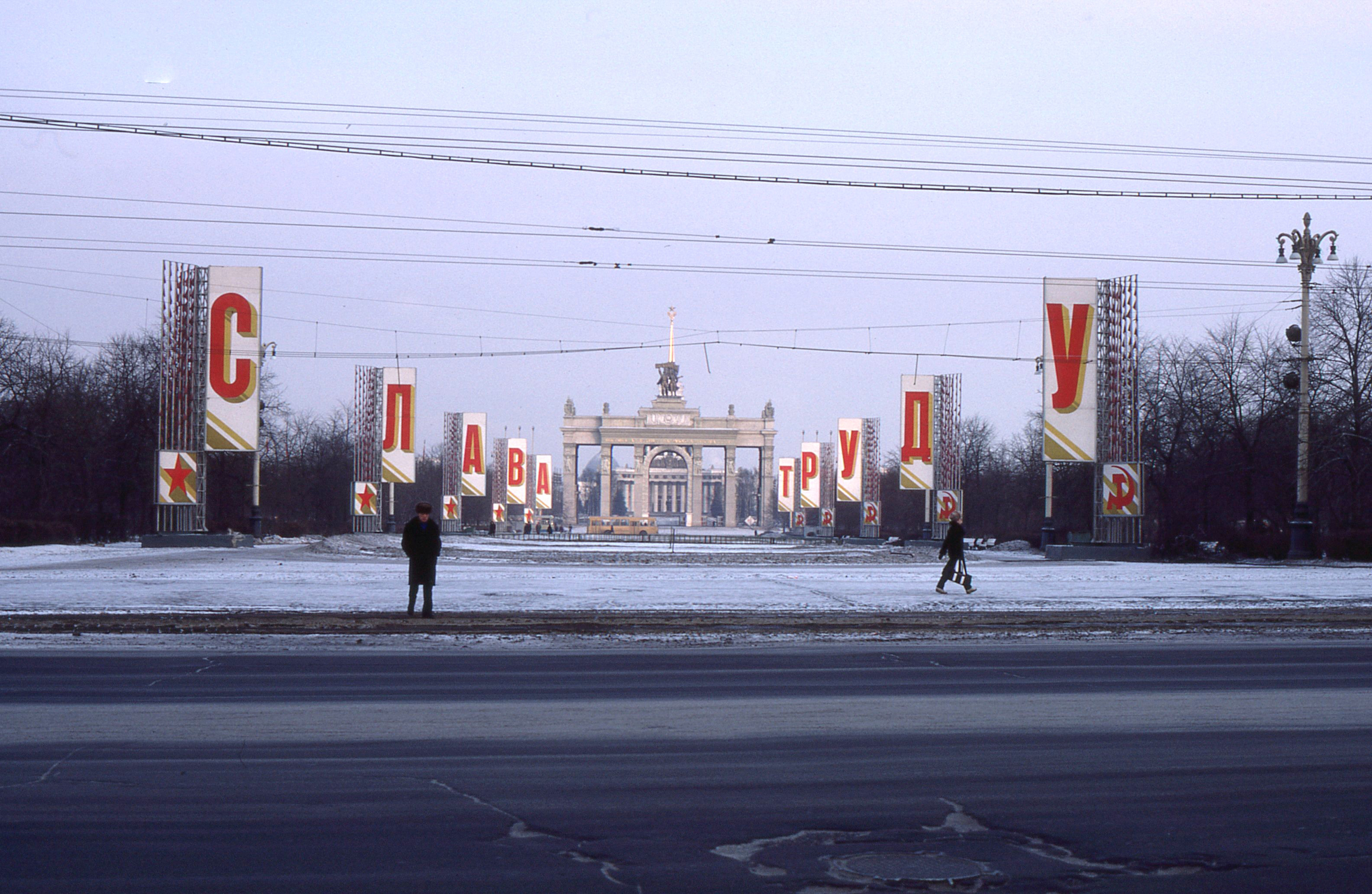 Touristic view